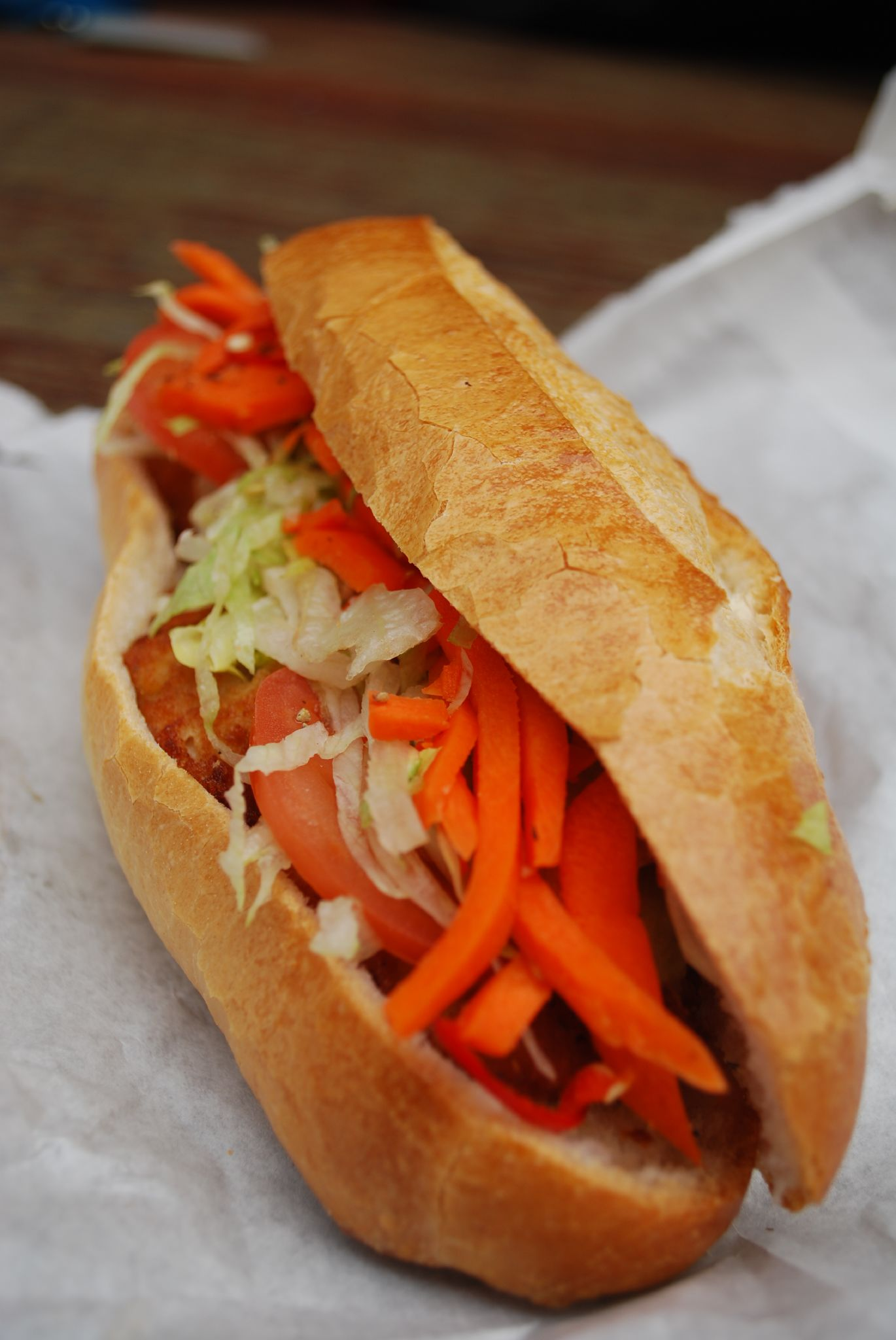 A colleague of mine raves about these chicken schnitzel rolls with Vietnamese coleslaw. I got the regular chicken schnitzel roll with salad. The chicken was juicy and the vegetables were crisp. All for AUD6. Bargain. --- Slick looking bakery cafe run serving freshly made Vietnamese rolls. N Lee Bakery & Cafe (03) 9654 8177 Shop 4/ 61 Little Collins St Melbourne VIC 3000 Reviews: - N Lee Bakery - d0ublecooked blog